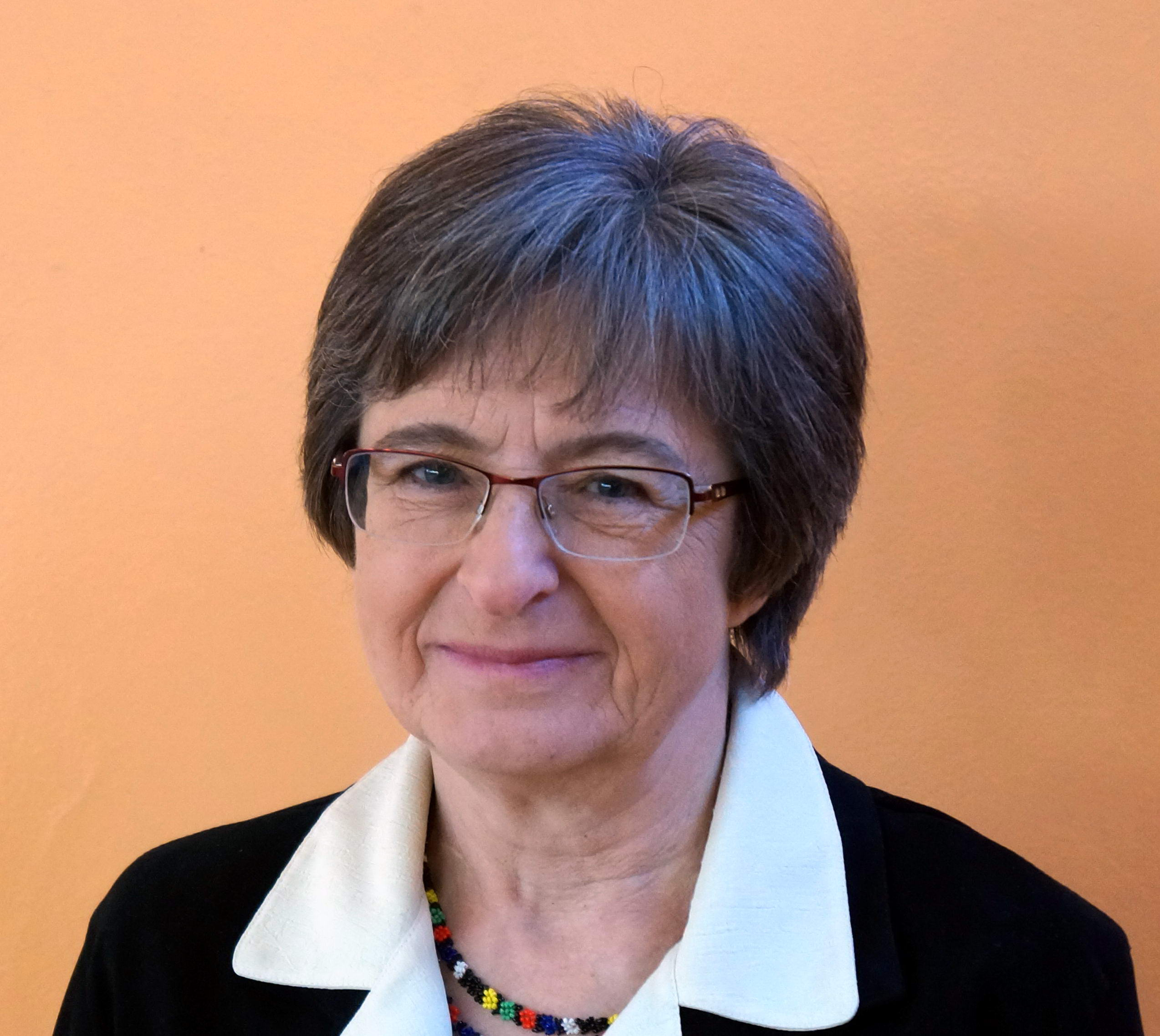 Irena Grzybowska - co-founder of the Encounter of Married Couples in Poland